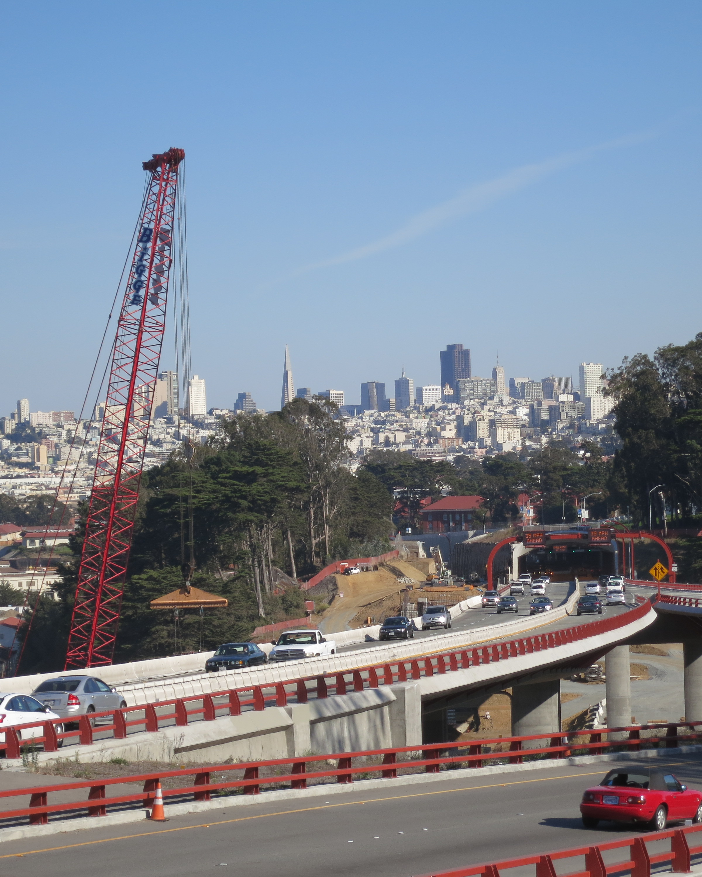 View from Story Avenue of Presidio {arkway